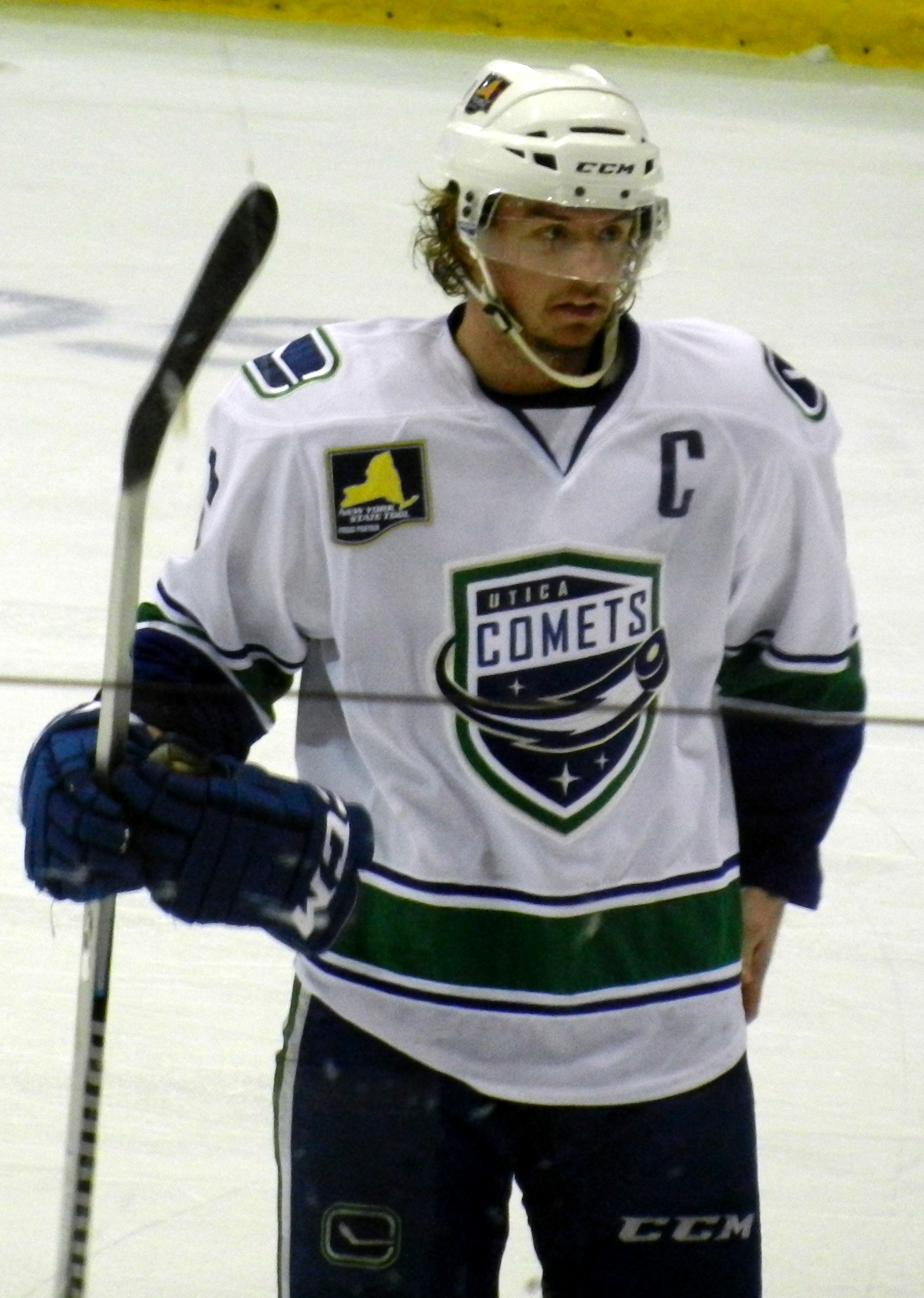 Cal O'Reilly playing for the Utica Comets